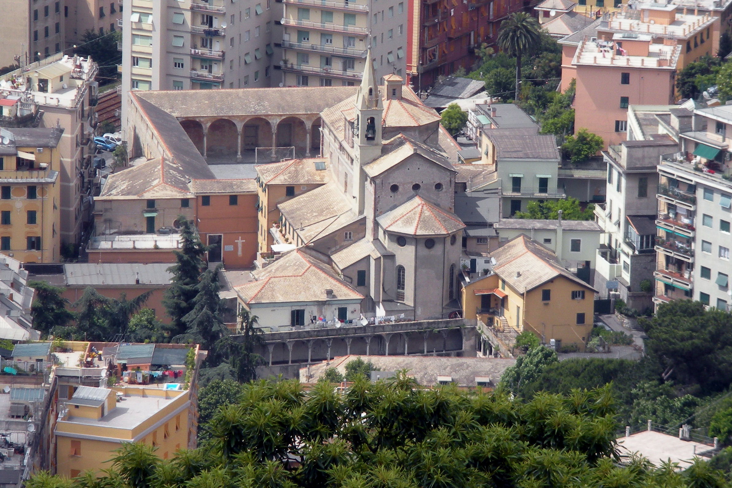 Genova, Rivarolo (Italy). The curch and the monastery of St. Bartolomeo at Certosa